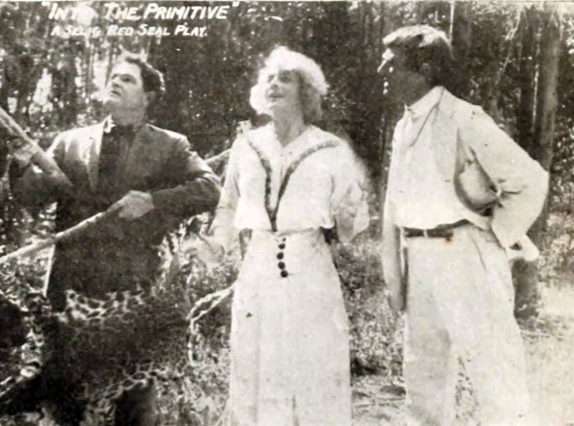 Illustration of a review in The Moving Picture World